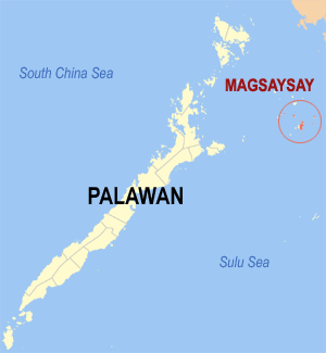 Map of Palawan showing the location of Magsaysay